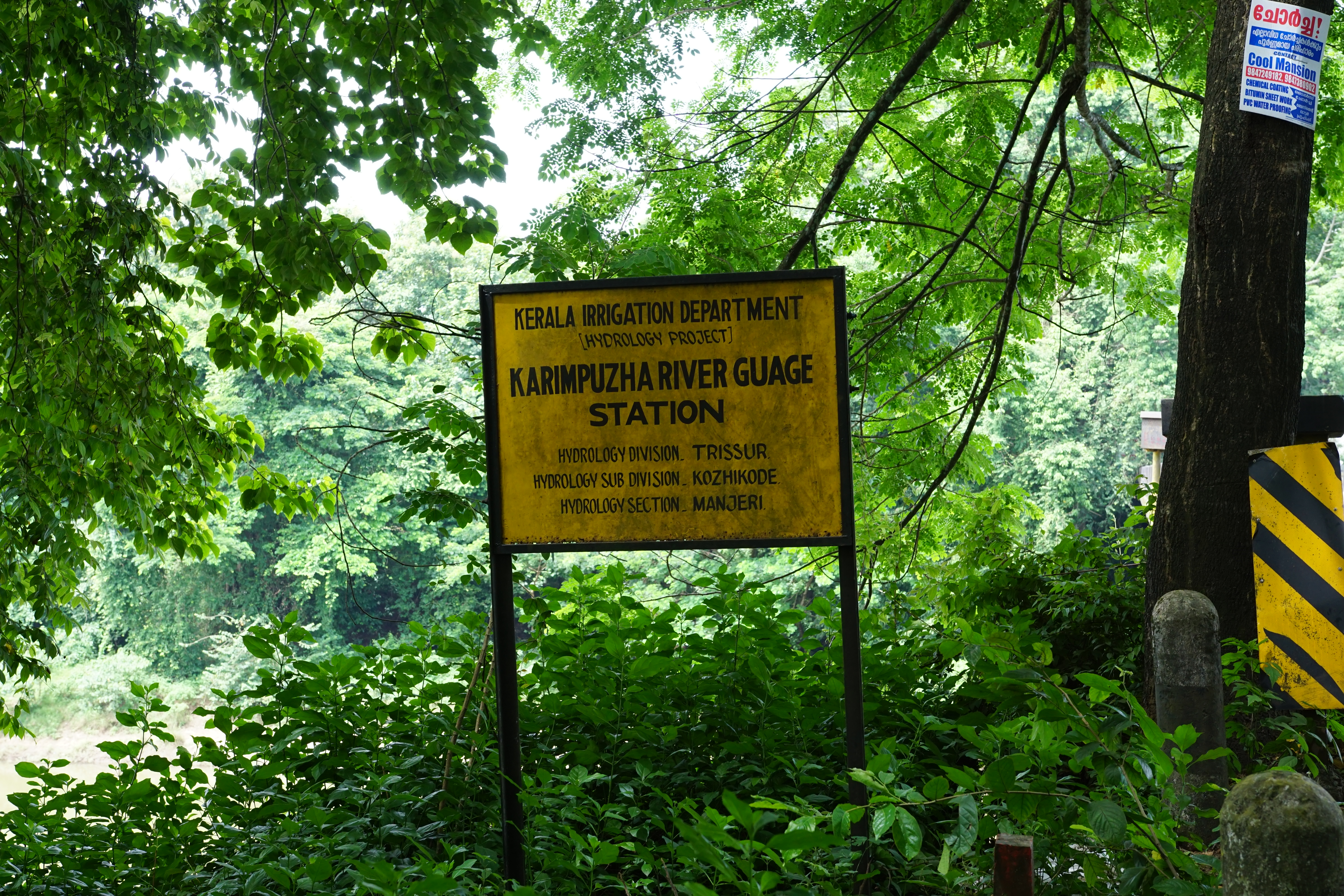 Nilambur